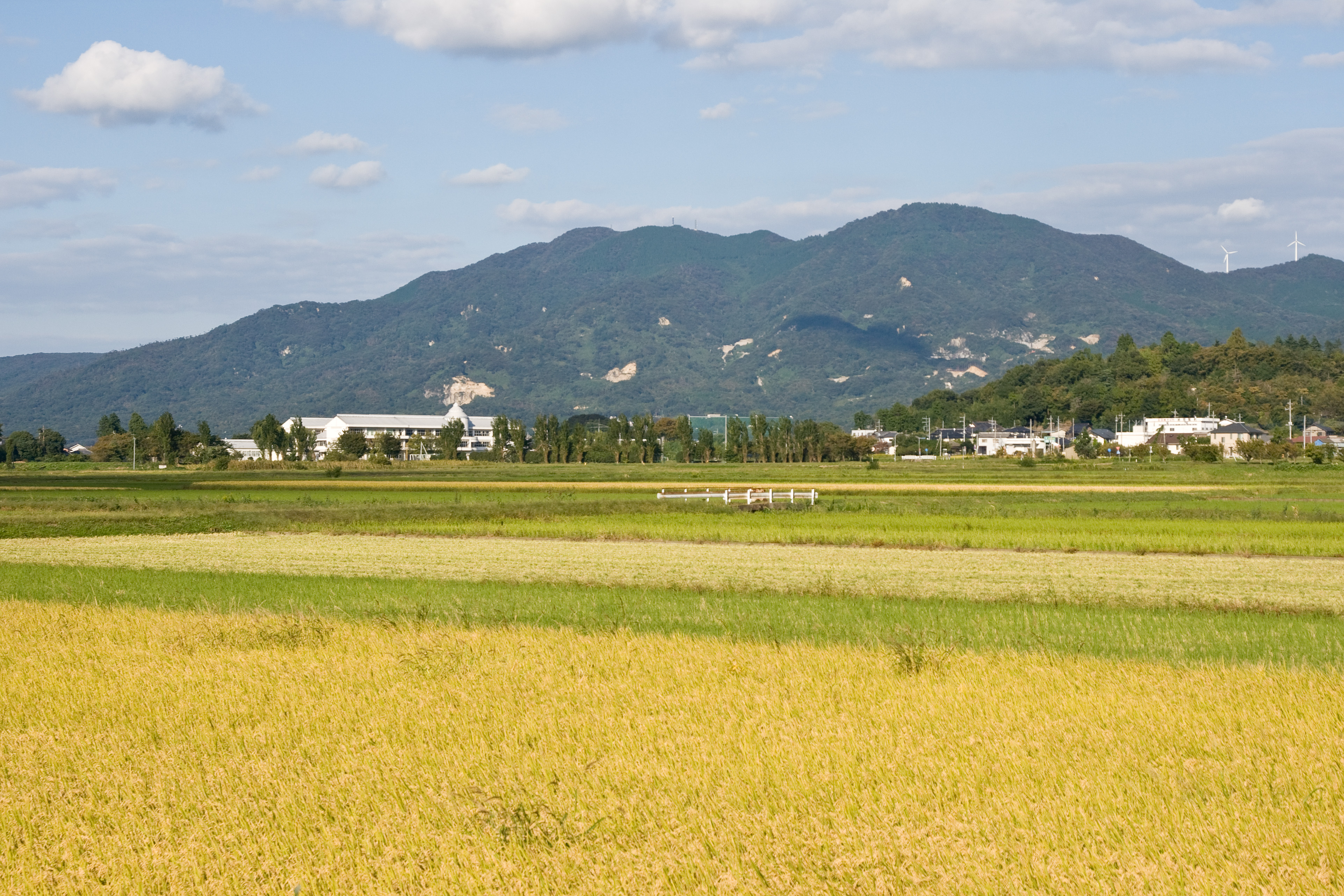 Mount Kaba seen from Sakuragawa City, Ibaraki Pref., Japan.